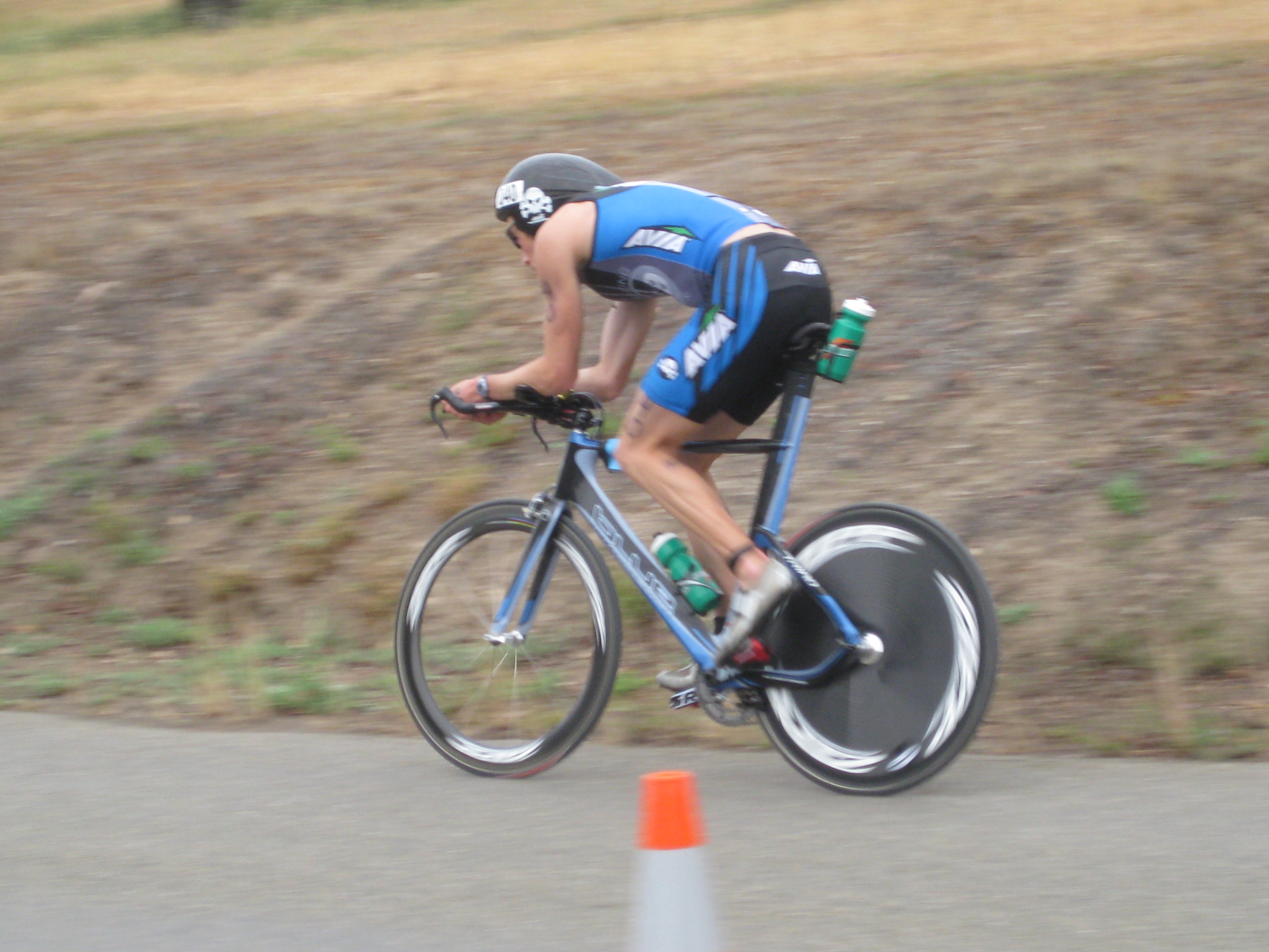 Trevor Wurtele at 2009 Wildflower Triathlon